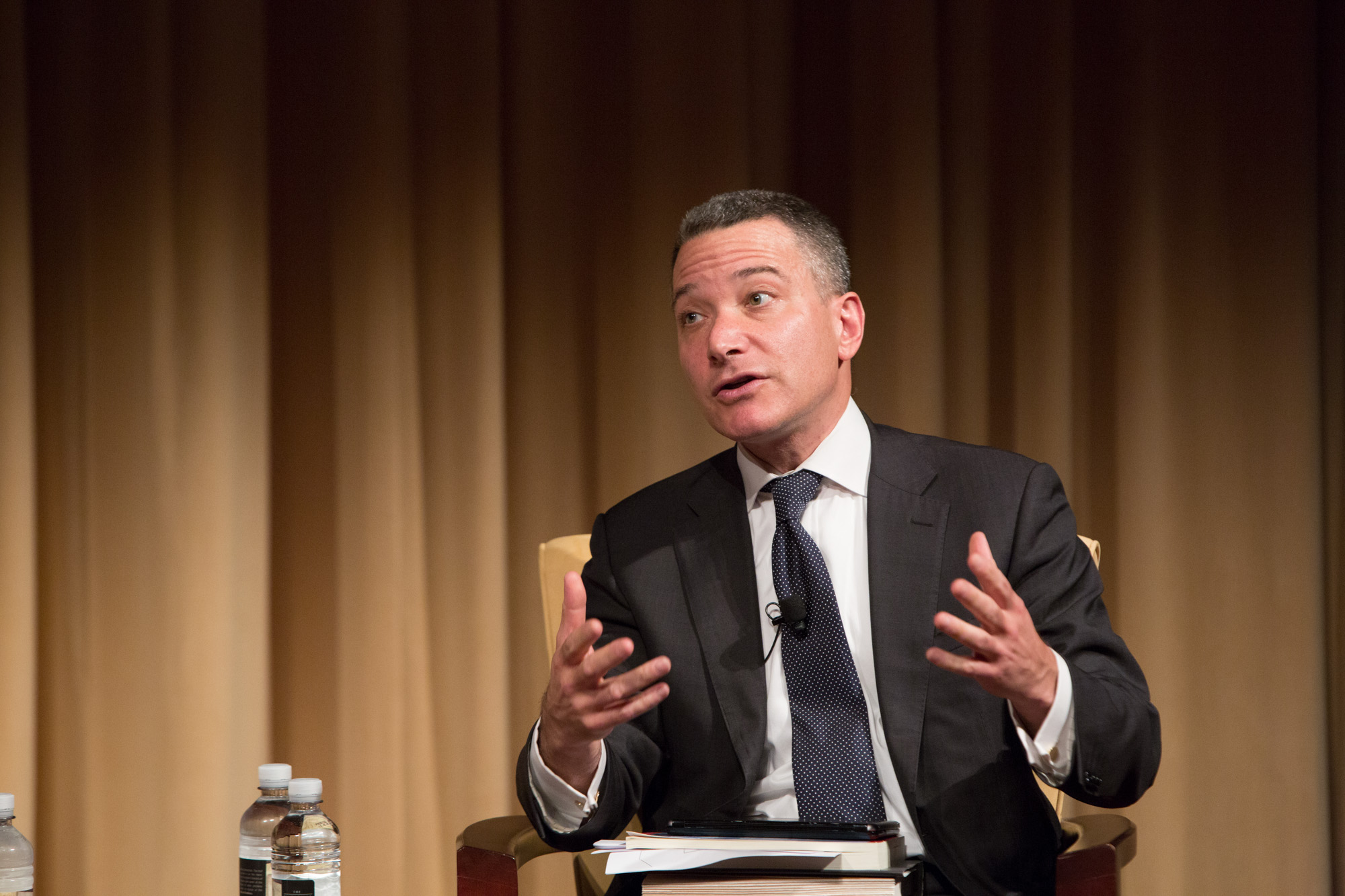 The 13th Amendment at 150: Emancipation, America's Second Founding and the Challenges That Remain